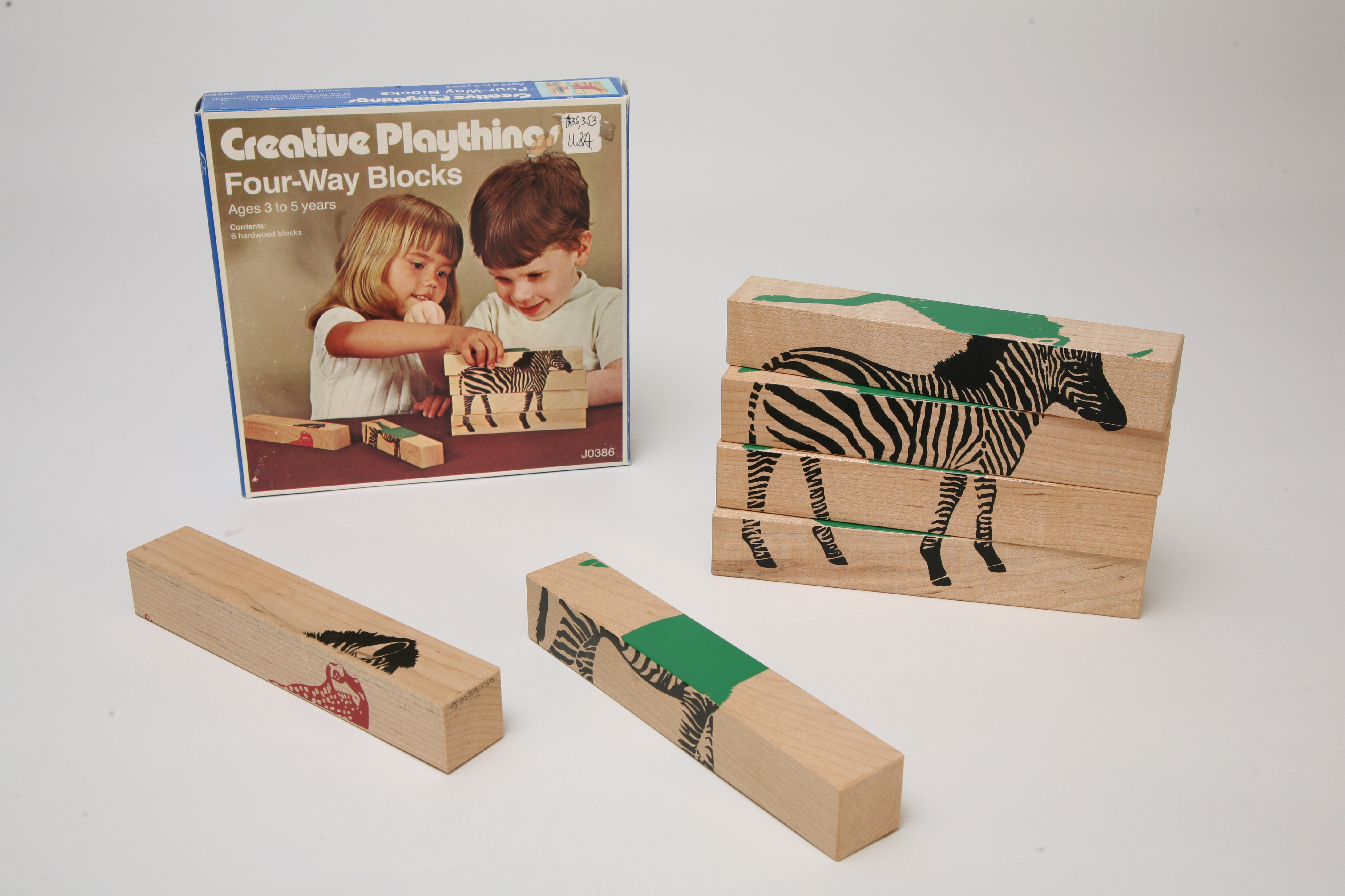 Creative Playthings wooden stacking puzzle with images of giraffe, leopard, zebra & ibex. Located in the permanent collection of The Children’s Museum of Indianapolis